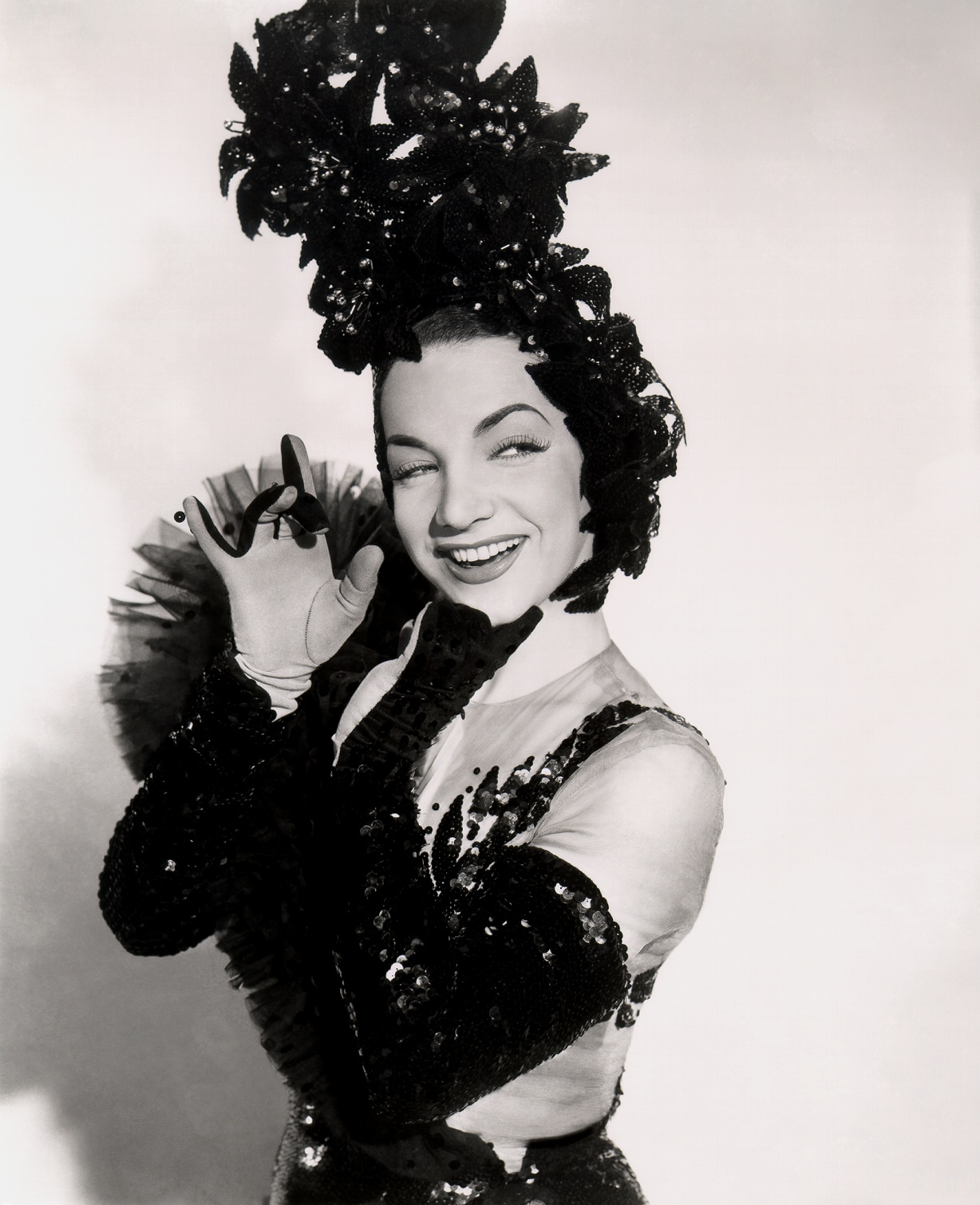 Carmen Miranda in publicity photo for the American film Greenwich Village (1944).